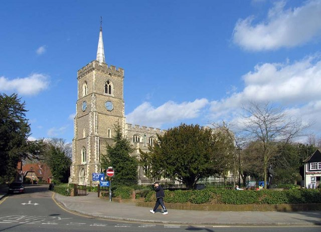 St Mary, Ware, Herts